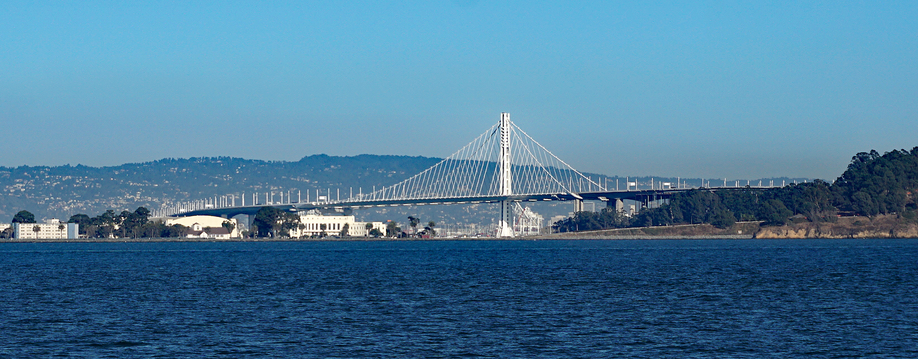 San Francisco–Oakland Bay Bridge new eastern span